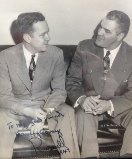 Photo of U.S. Senator Russell Long with campaign director Harvey Locke Carey, dated 1949 in Senate office